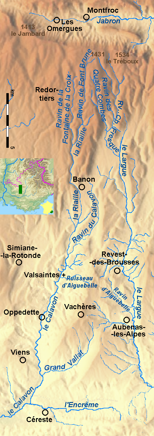 Uppercourses of river Calavon (with the Riaille of Haut-Provence as longer top affluent), river Largue an river Jabron, three affluents of river Durance